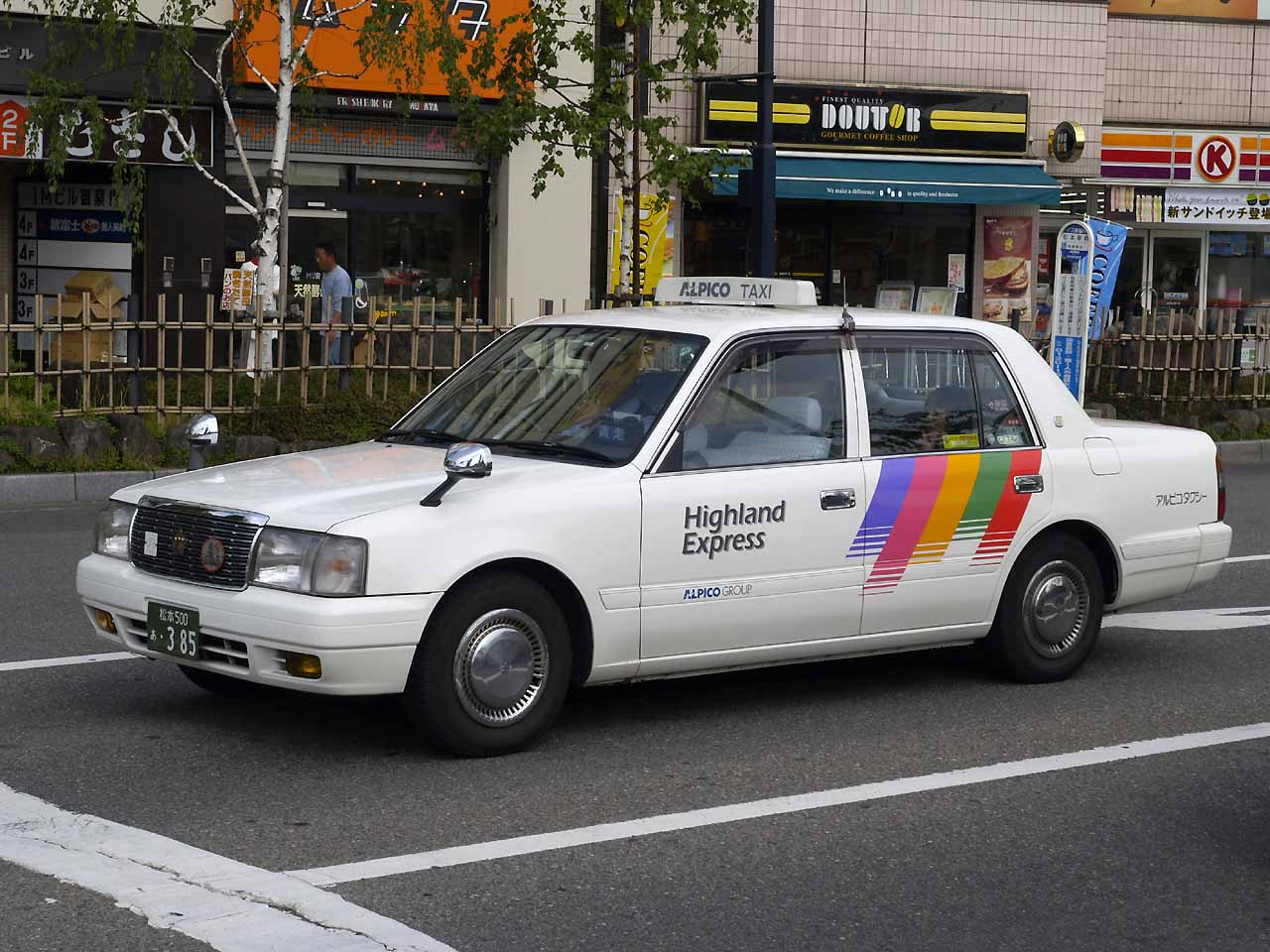 Fleet of Alpico Taxi group. License plate: NNM500 A-385 Place: neighbour of Matsumoto station, Matsumoto city, Nagano Japan